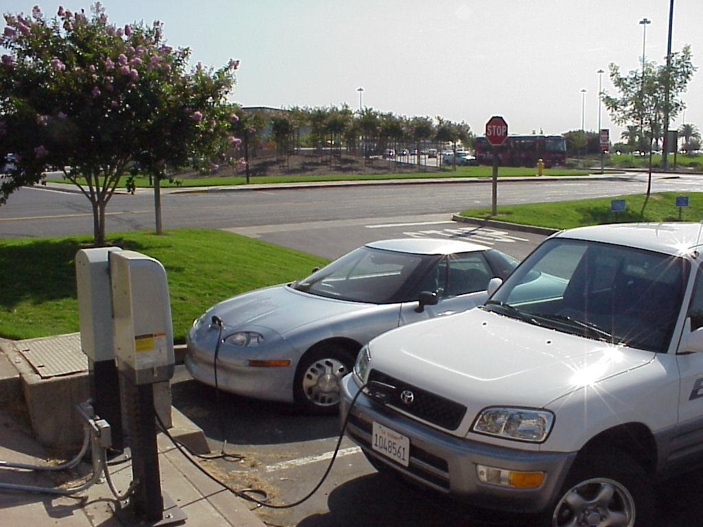 SMUD has been actively installing EV Chargers Since 1991 •Began Working With Electrical Vehicle Infrastructure Inc. in 1992 on Conductive Chargers •Market Studies Conducted On Public Acceptance in 1994 •Began installing inductive chargers in 1995 •Acquired Magne Charge / General Motors Charger Contract in December of 1999 from Edison EV - Installation contractor network in California and Arizona - Responsible for approximately 1900 charger installations - Clean Fuel Connections Inc. primary contractor